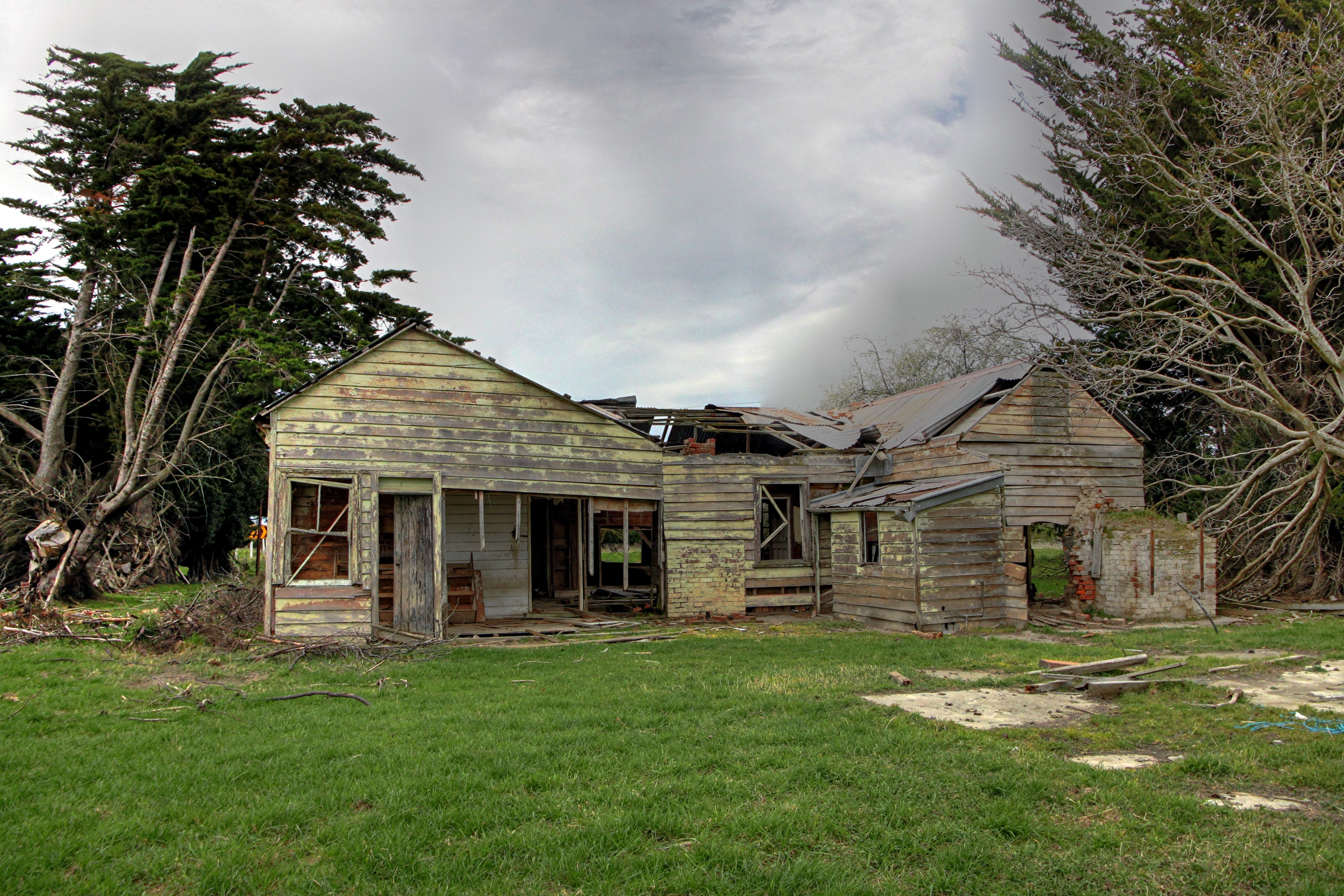 A view from an old abandoned farmhouse at Selwyn, a few kilometers north of Dunsandel. The back of the house has decayed more than the front; two chimneys on the left section of this view have fallen, probably as a result of the Christchurch earthquakes.